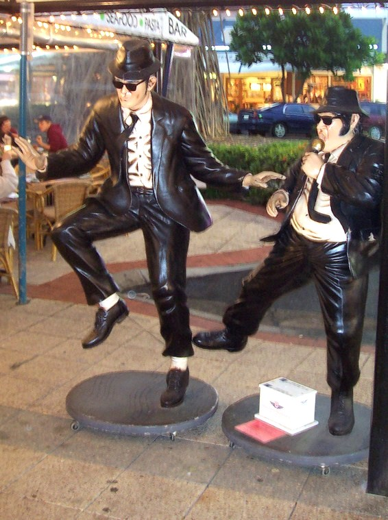 The Blues Brothers in Australia.